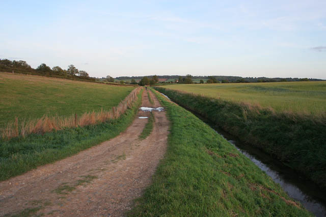 Viking Way and Honington Beck This narrow stream acts as a drain for the surrounding land. It flows into the River Witham just behind the viewpoint.